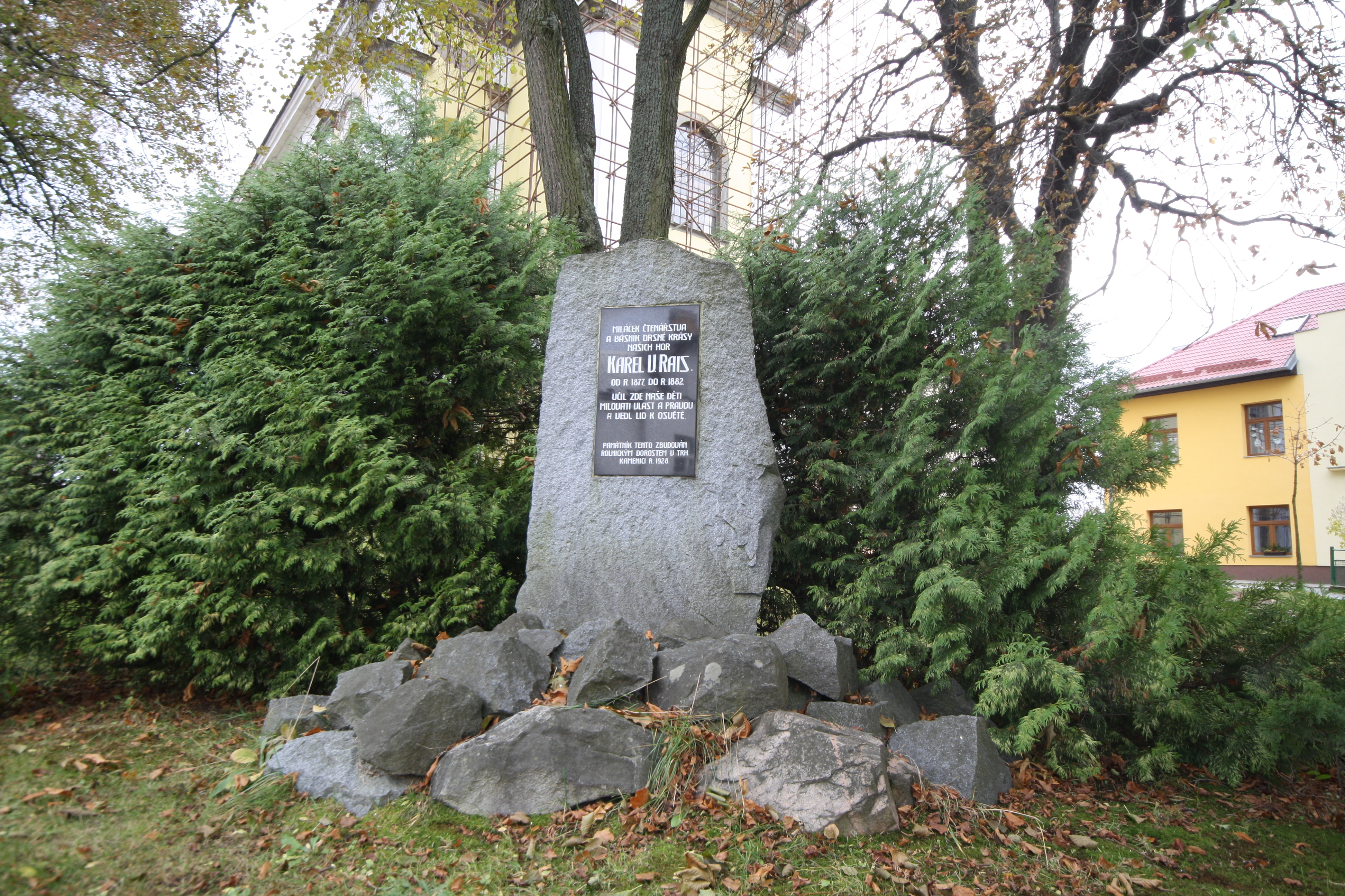 Memorial of Karel Václav Rais in Trhová Kamenice, Chrudim District.